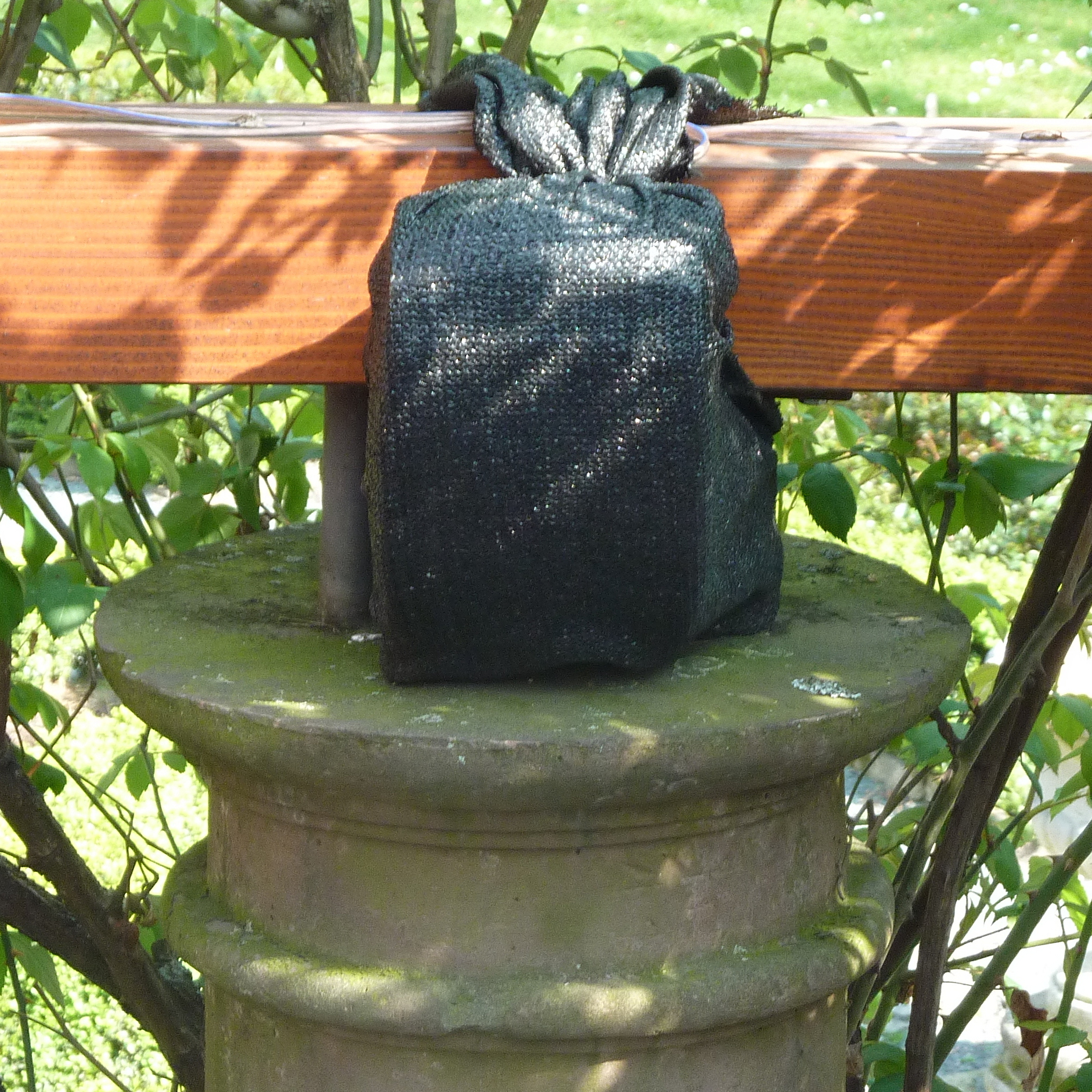 saasfee*soundpark is an art project and permanent sound installation in the city of Frankfurt-am-Main, Germany. The project, located in a public park and residing in a neighbouring pavillon, presents contemporary works of international sound artists and musicians. Shown here is one of the well-hidden loudspeaker cabinets in the park, sitting atop a sandstone pillar and wrapped up in waterproof fabric